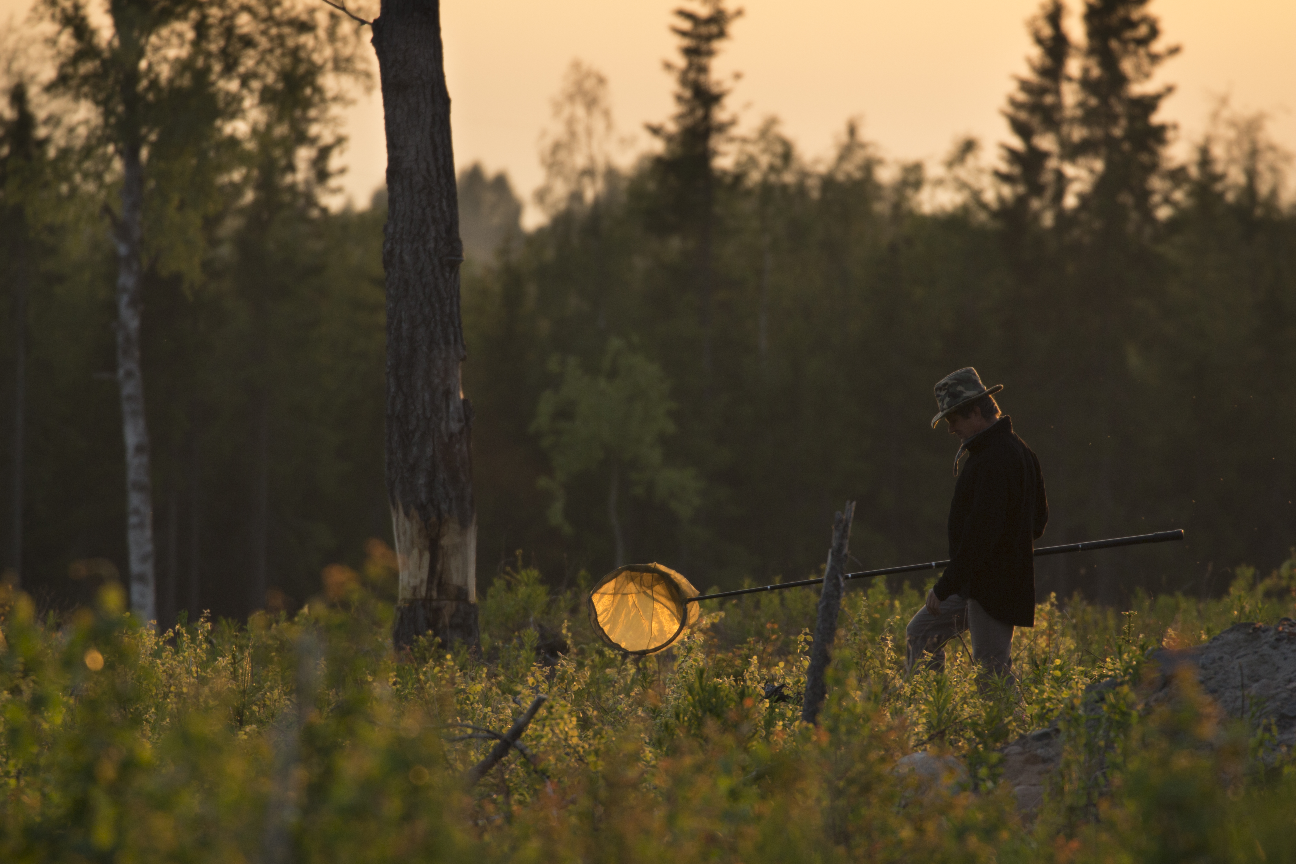 Estonian lepidopterist Aare Lindt on field works in Finland.